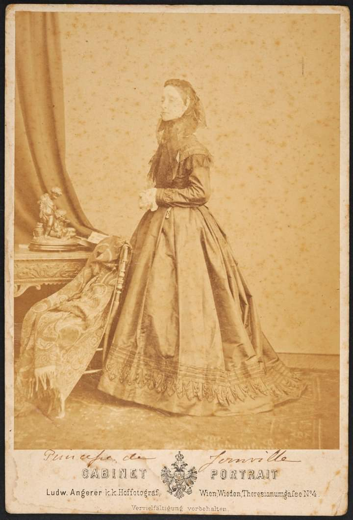 A photograph (albumen print) of Francisca, Princess of Brazil, c.1868